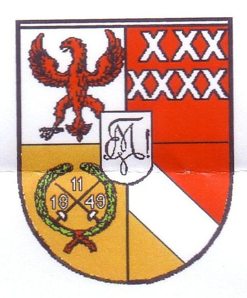 Coats of arms of the Corps Marchia Breslau